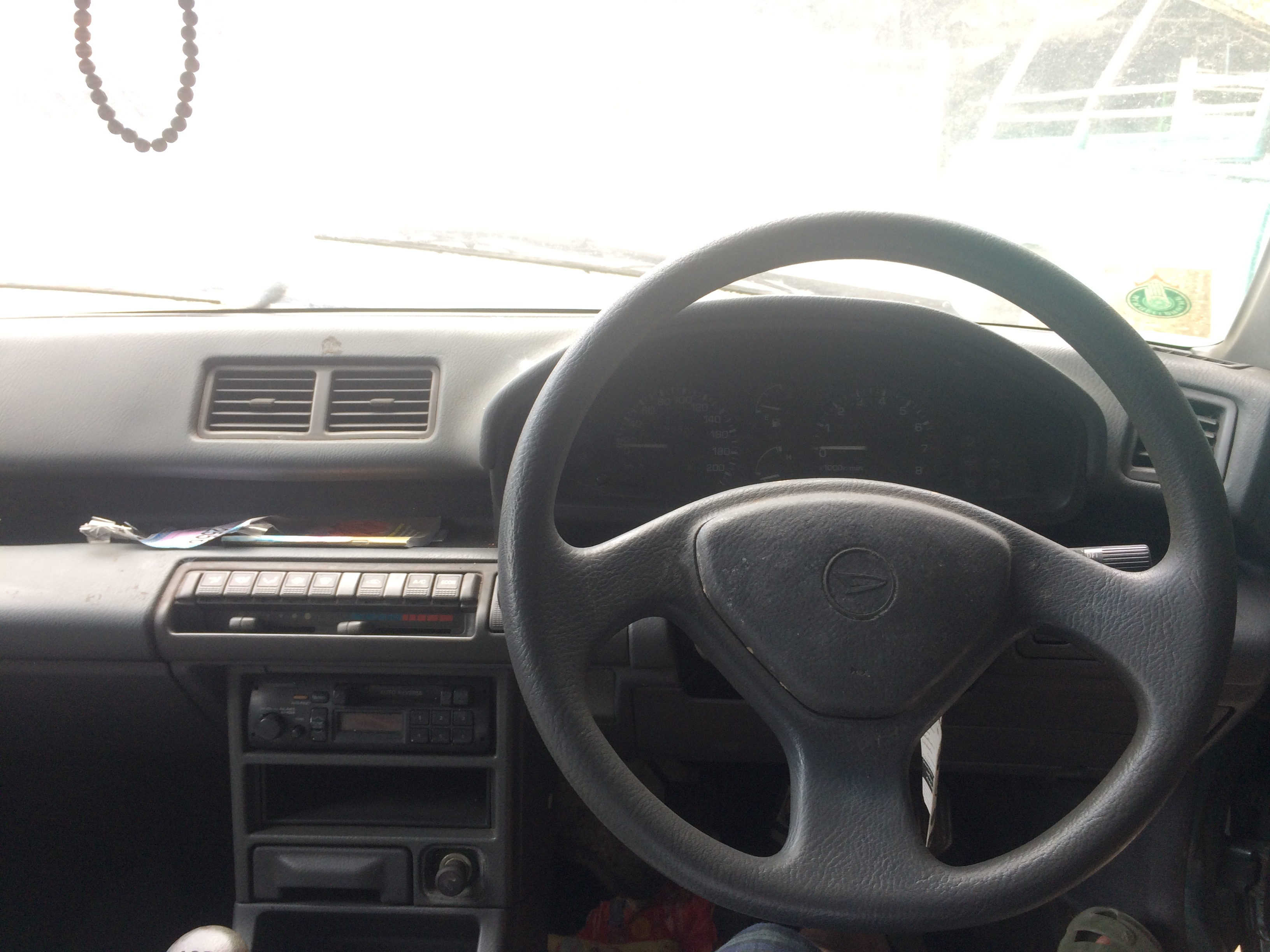 Dashboard Daihatsu Applause 1.6 Xi